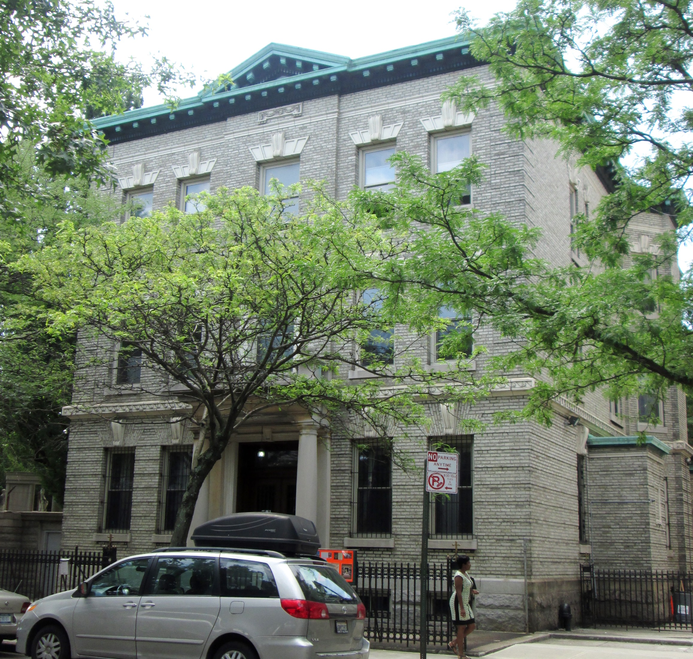 The Co-cathedral of St. Joseph of the Roman Catholic Diocese of Brooklyn, located at 856 Pacific Street between Vanderbilt and Underhill Avenues in the Prospect Heights neighborhood of Brooklyn , New York City, was built in 1912 in the Spanish Colonial style, replacing a previous church built in 1861. The parish was founded in 1850. On February 14, 2013 Pope Benedict XVI approved having church designated as the diocesan co-cathedral, as the Cathedral Basilica of St. James, is too small to hold diocesan liturgies. The church's rectory was built c.1860 inthe Neoclassical style.